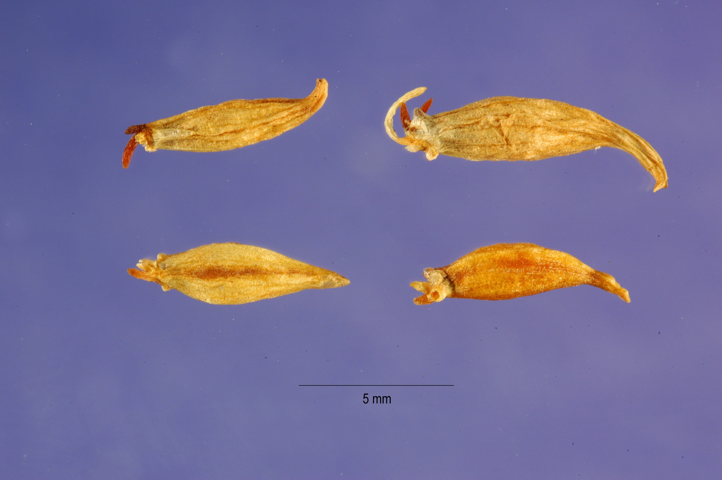 Geyer's Onion. Family Alliaceae. Seeds. Collected in Canada.